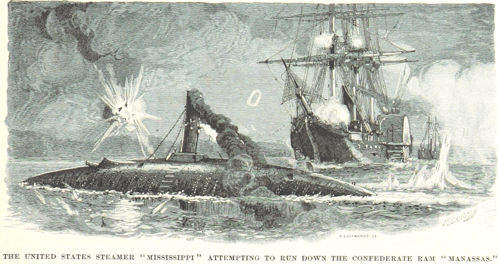 During the Battle of Forts Jackson and St. Philip, the Union frigate USS Mississippi tries to ram the Confederate ironclad CSS Manassas.